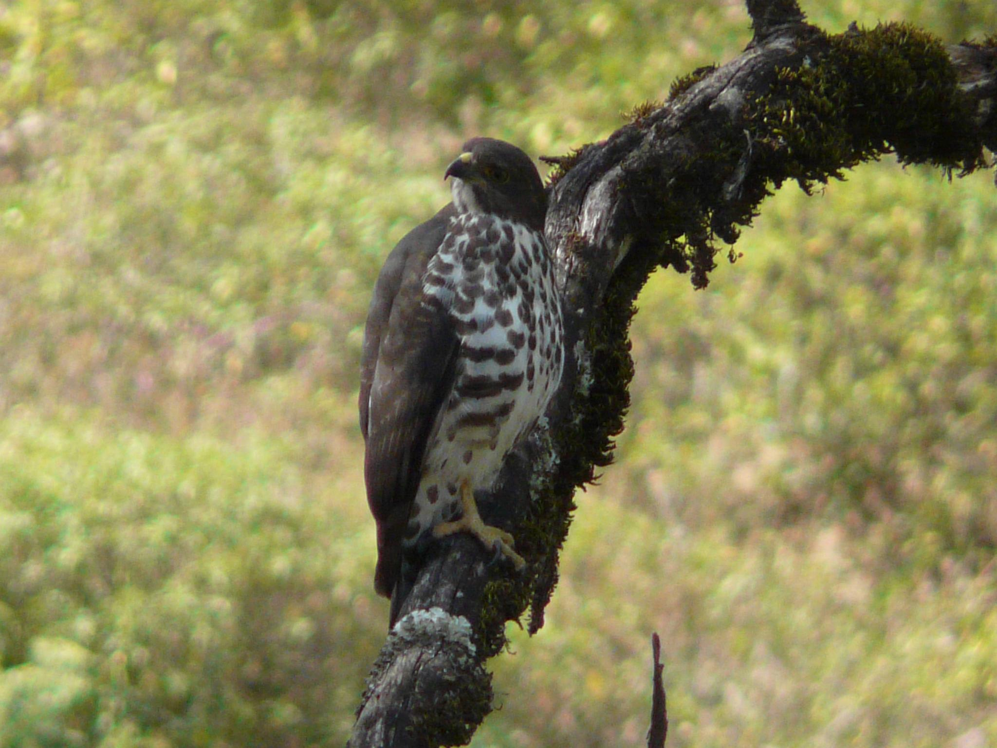 A Mountain Buzzard in Ethiopia.